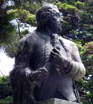 Picture of the bronze statue of Spanish Lieutenant-Genaral Antonio Barcelo y Pont de la Terra located in Palma de Majorca.